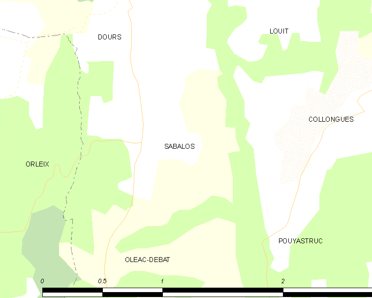 Map of French municipality